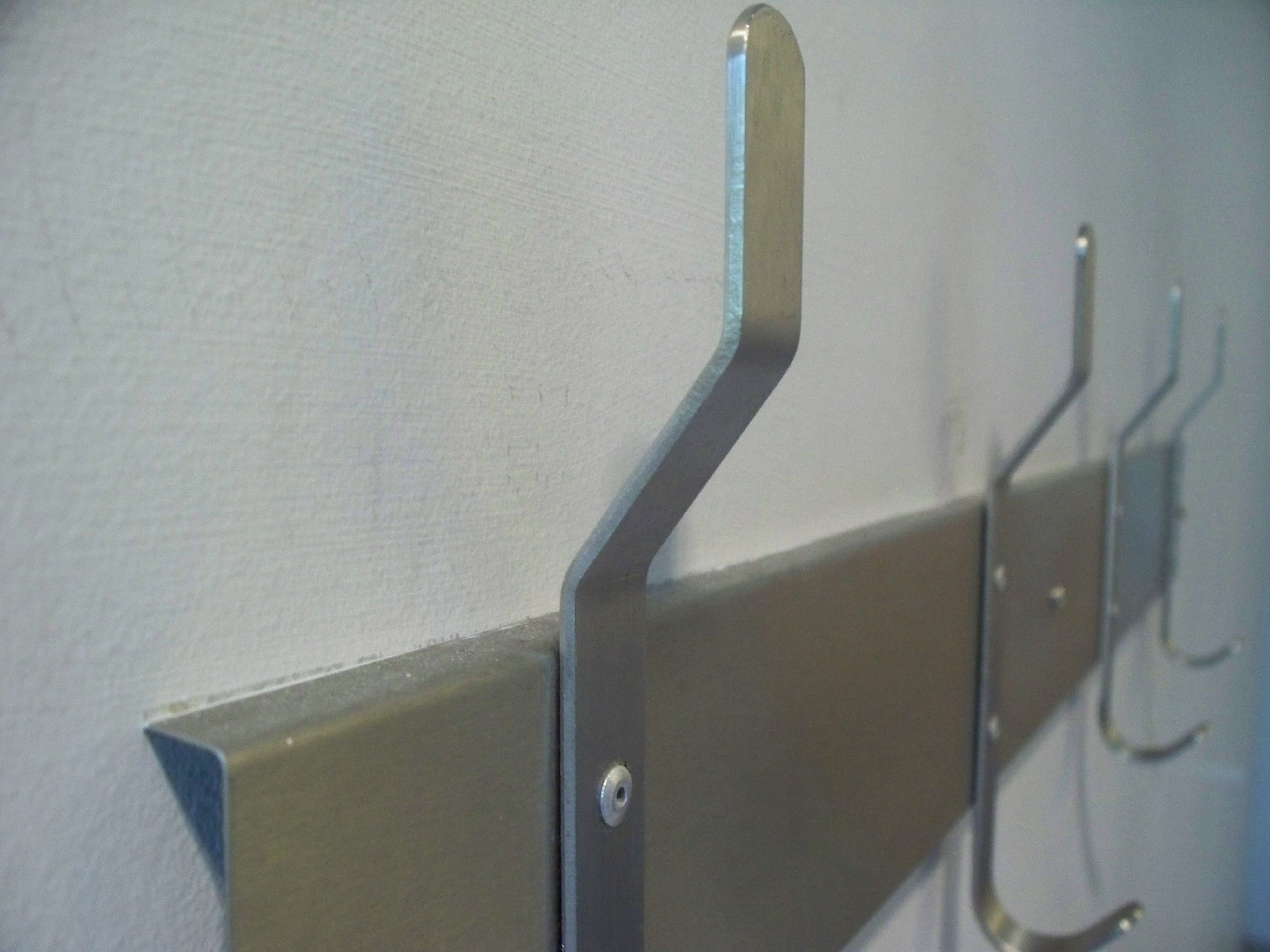 Unused wardrobe hooks in a public restroom.